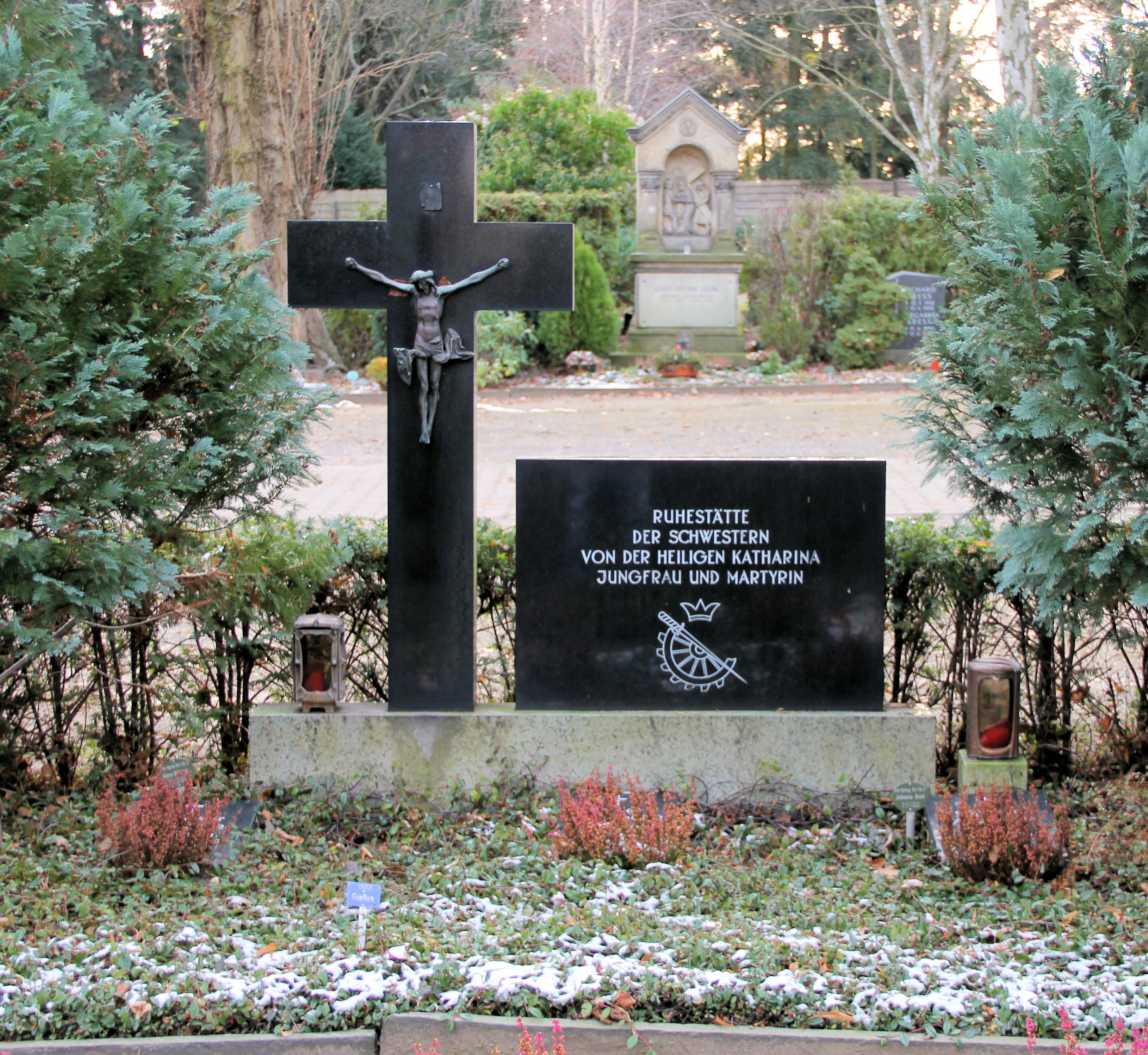 Graves, Katharinenschwestern, Röblingstraße 91, Berlin-Tempelhof, Germany Koordinate:52°27′14″N 13°21′39″E / 52.45389°N 13.36083°E